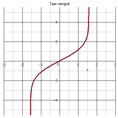 Tanc integral